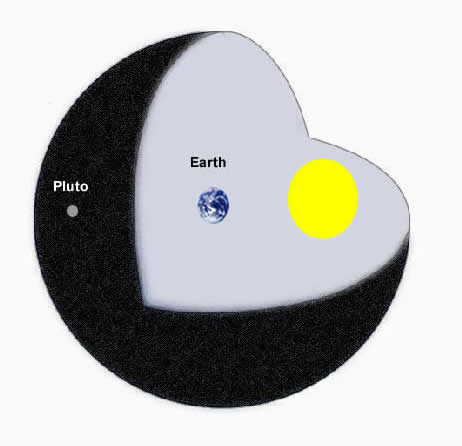 Matrix Sphere